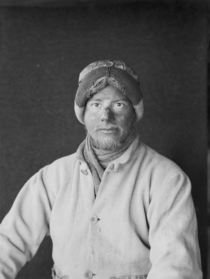 Apsley George Benet Cherry-Garrard (2 January 1886 – 18 May 1959) was an English explorer of Antarctica and member of Robert Falcon Scott's Antarctic expedition of 1910-1913, the Terra Nova Expedition.